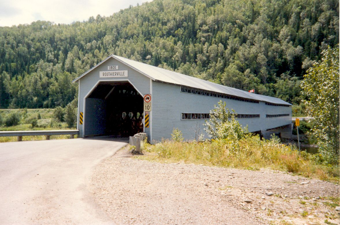 Covered bridge in Routhierville (Quebec, Canada) in the 1990s.